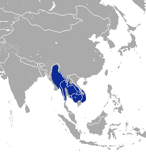 Burmese Hare (Lepus peguensis) range